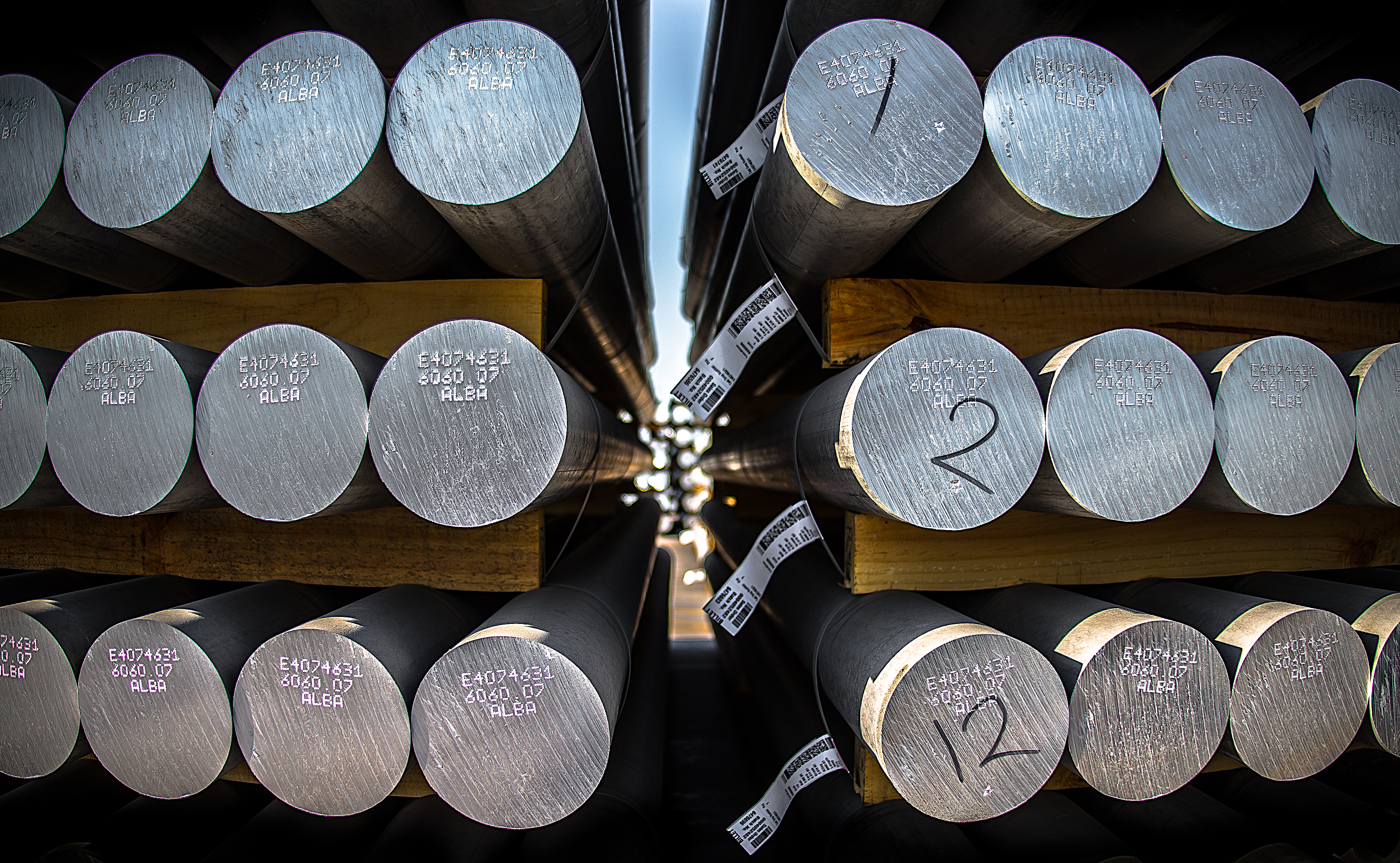 Alba produces more than 971,000 metric tonnes per annum of aluminium which meet or exceed industry standard for purity.